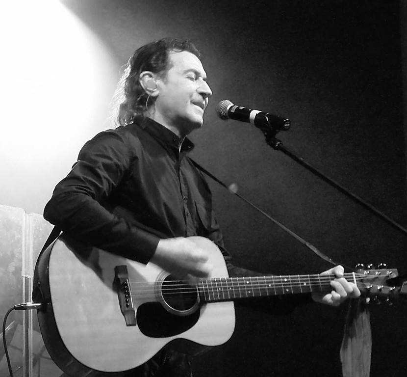 Albert Hammond in concert at Loewensaal Nuremberg, Germany, may 2013.